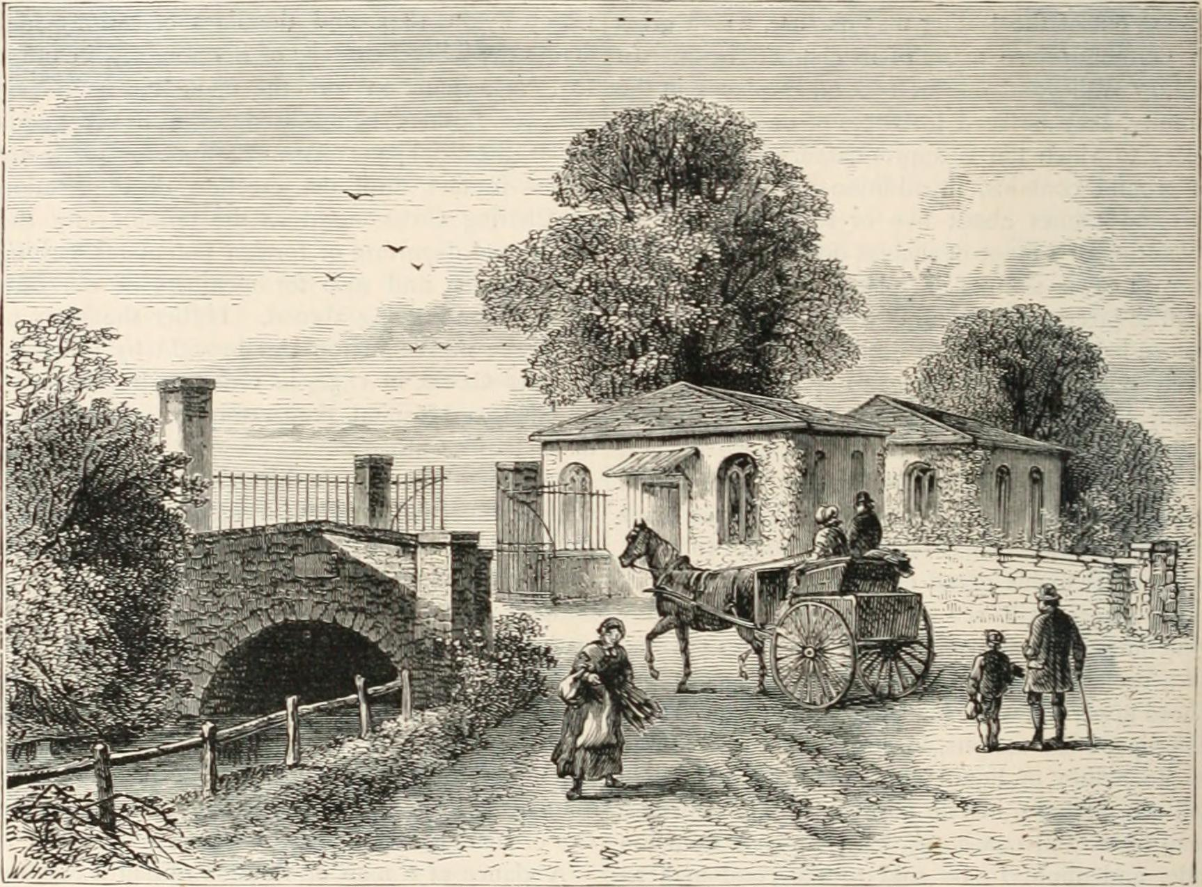 Identifier: oldnewlondonnarr06thor Title: Old and new London : a narrative of its history, its people, and its places Year: 1873 (1870s) Authors: Thornbury, Walter, 1828-1876 Subjects: Publisher: London : Cassell, Petter, & Galpin View Book Page: Book Viewer About This Book: Catalog Entry View All Images: All Images From Book Click here to view book online to see this illustration in context in a browseable online version of this book. Caption: BRIDGE AND TURNPIKE IN THE GRANGE ROAD, ABOUT 182O. Descriptive text (p.124): Grange Road, which was built on the pasture-ground belonging to the monastery, commences near the south-west corner of the square, and extends to what was till lately the Grange Farm, and continues onward to the ancient water-course called the Neckinger, over which is a bridge, leading to the water-side division of the parish.